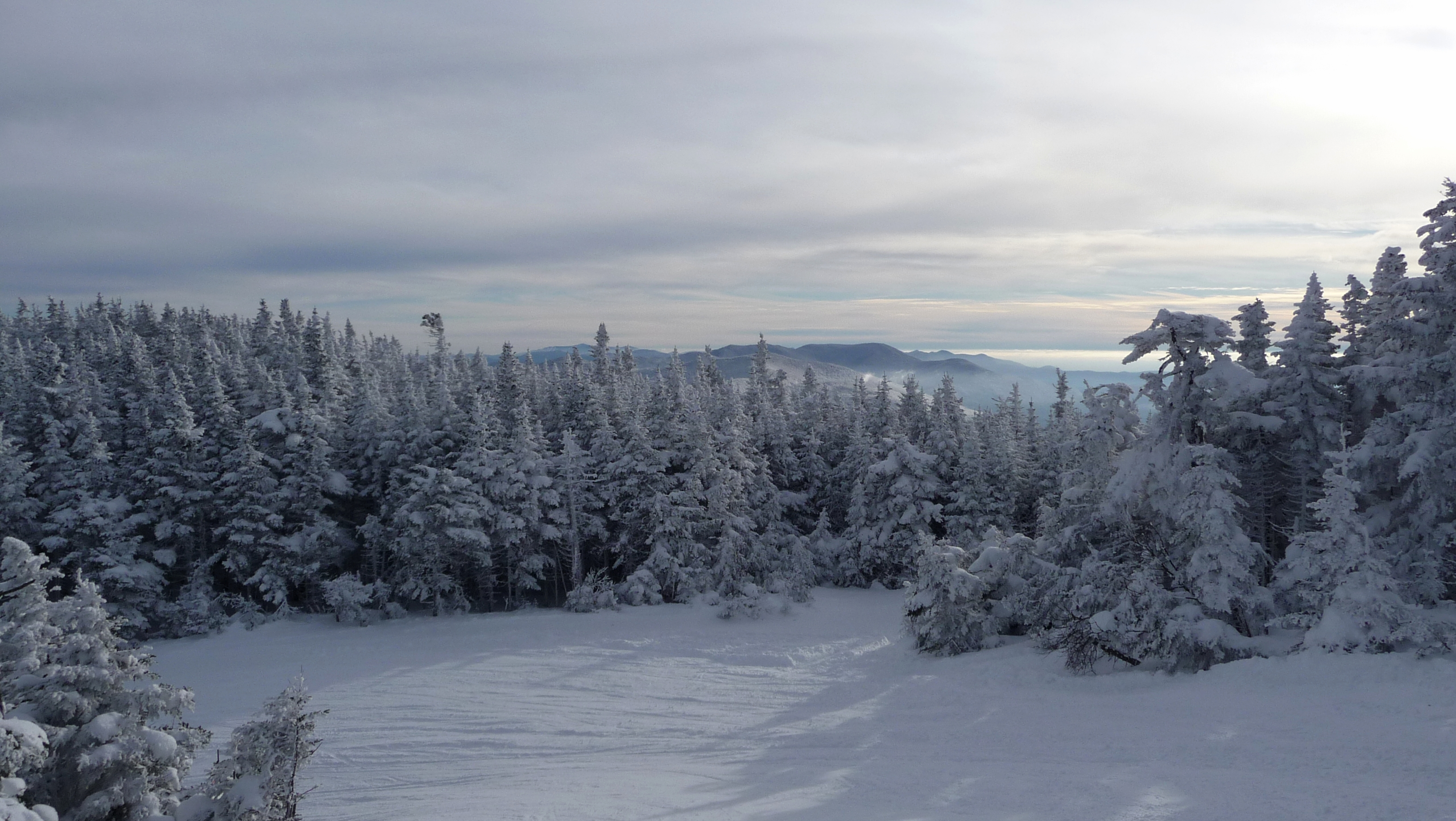 Upper Jester Ski trail, Sugarbush Resort, Warren